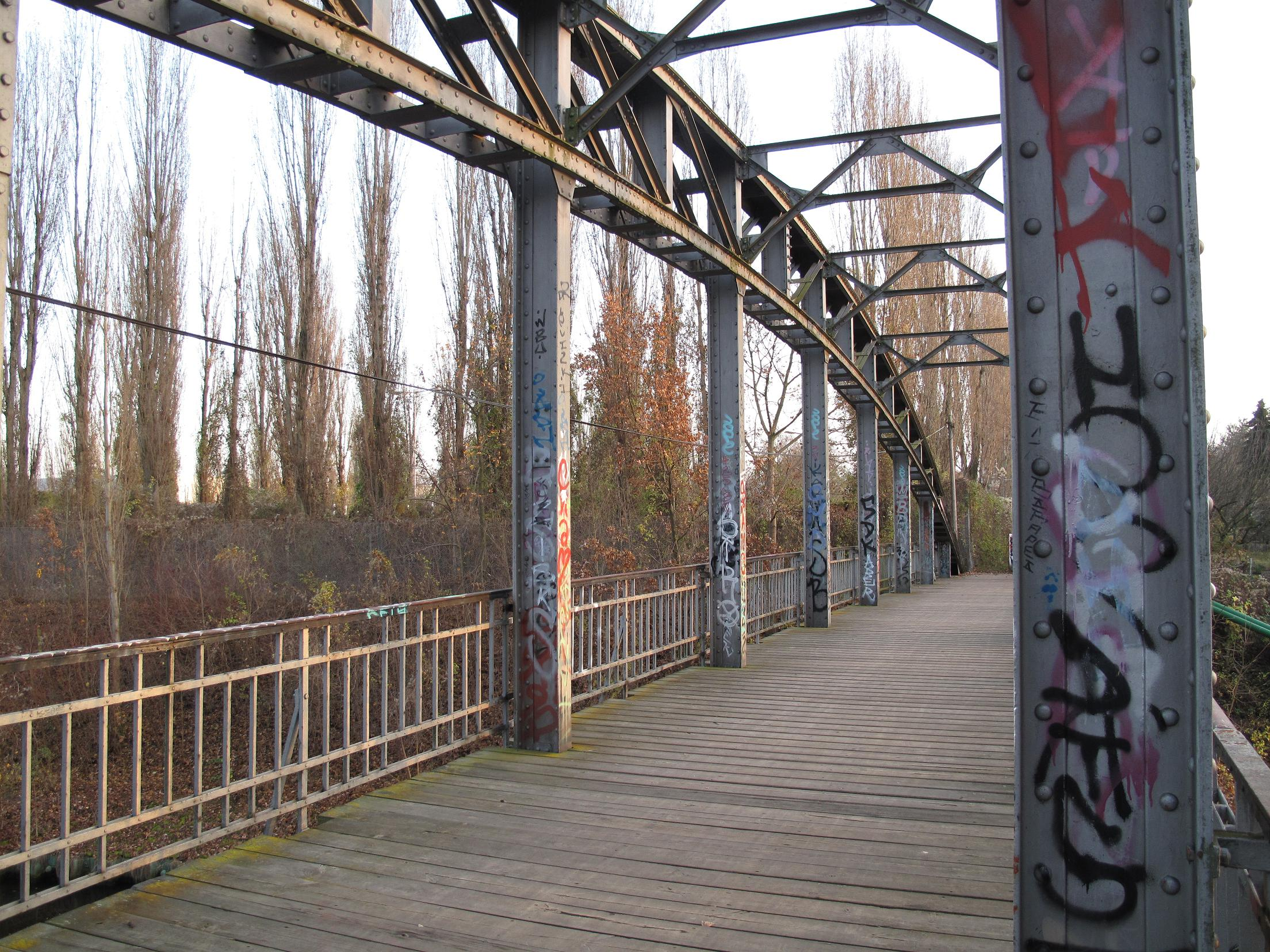 The not named foot bridge, a steel arch bridge, is crossing the Teltowkanal (canal) in Berlin-Tempelhof.